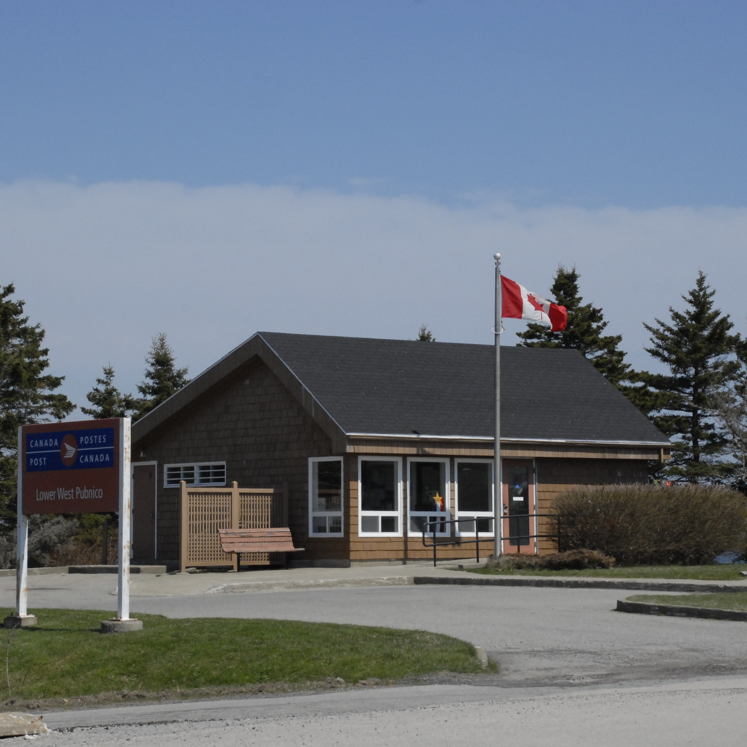 Post office in Lower West Pubnico, Yarmouth County, Nova Scotia